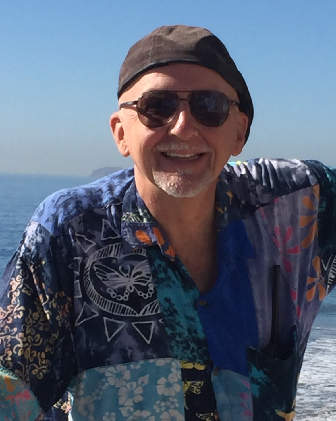 A photo of L.B. ‘Kyle’ Keilman on the coast of Malibu, CA on November 30, 2017